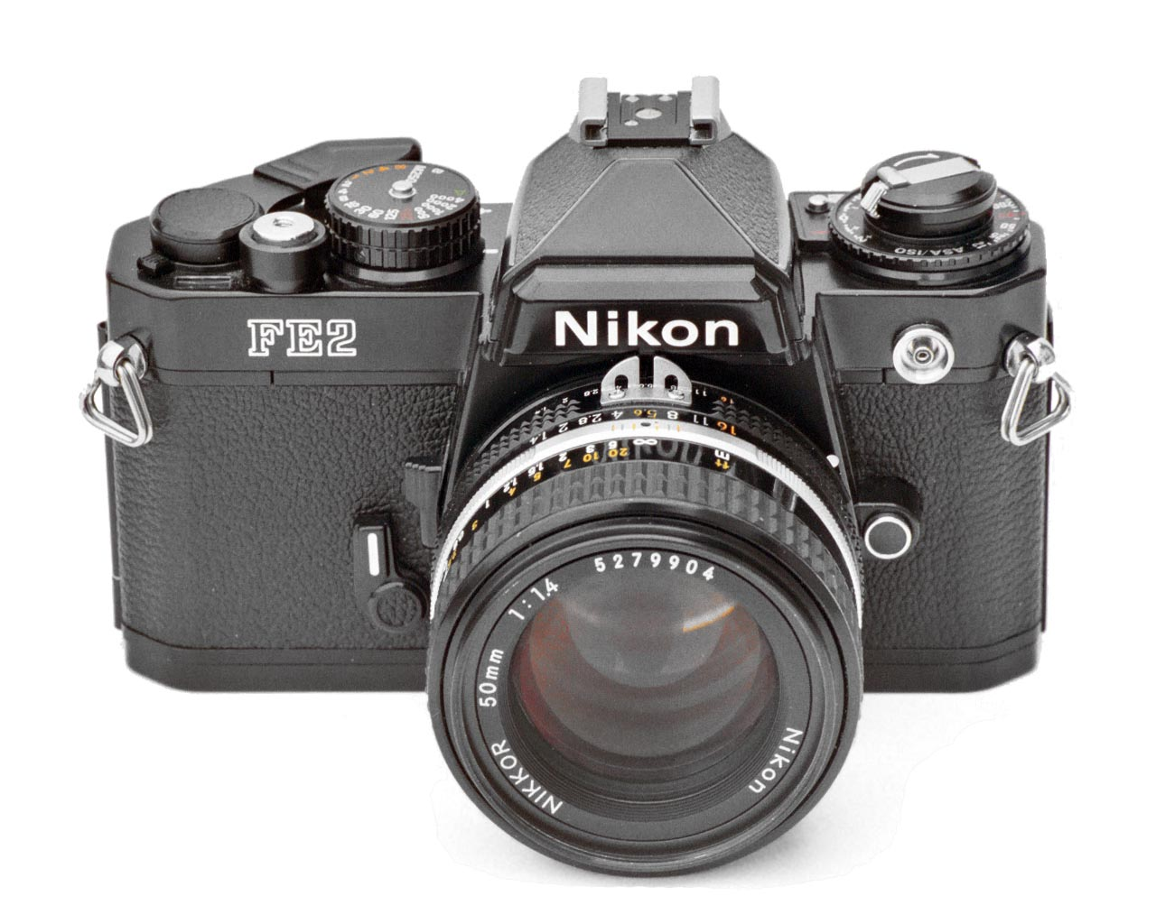 Nikon FE2 SLR camera (black), from front with Nikkor AI-S 50 mm f/1.4 lens